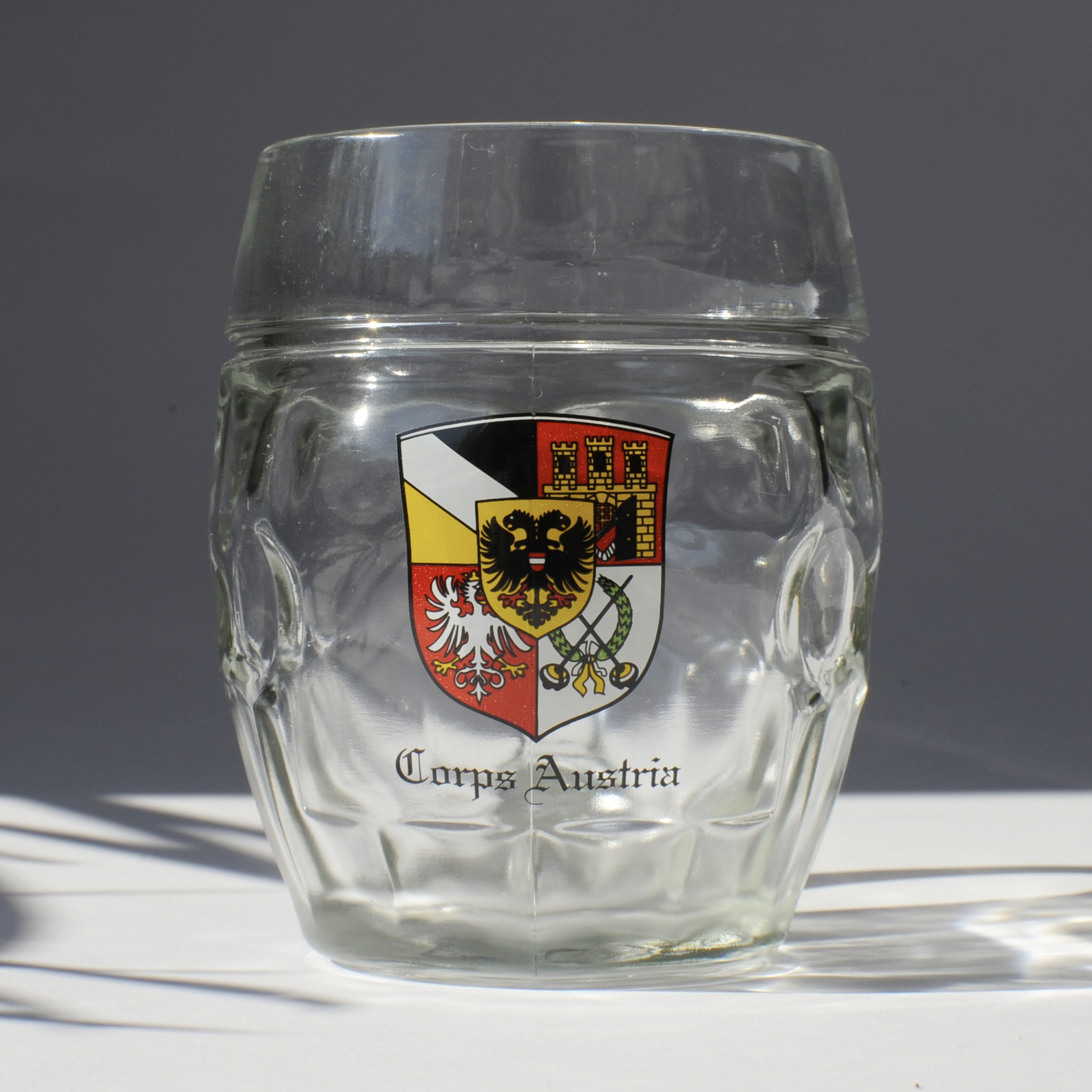 Beer glass with coat of arms of Corps Austria